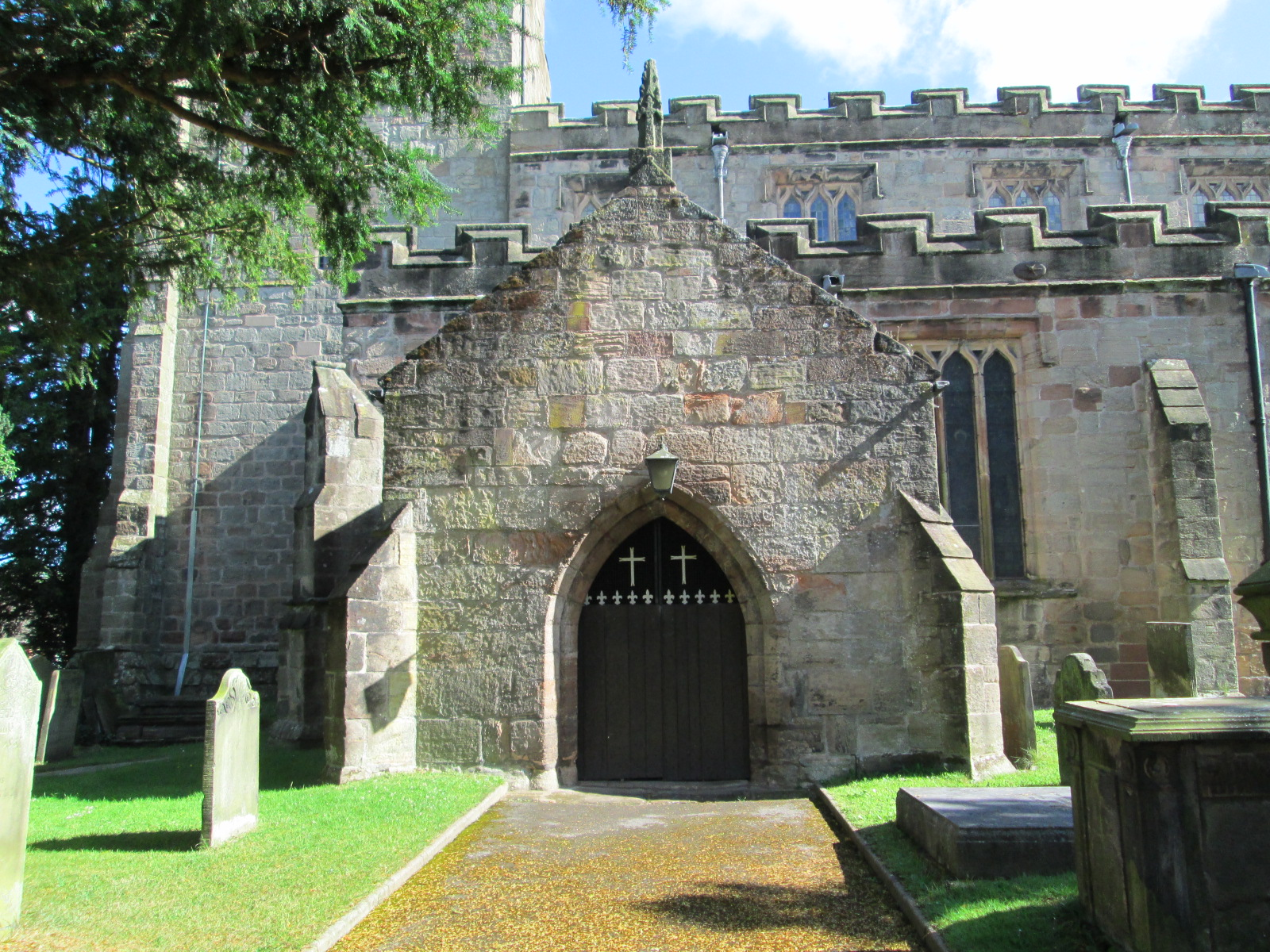 St Mary and All Saints Church, in Checkley, Staffordshire: the south entrance.